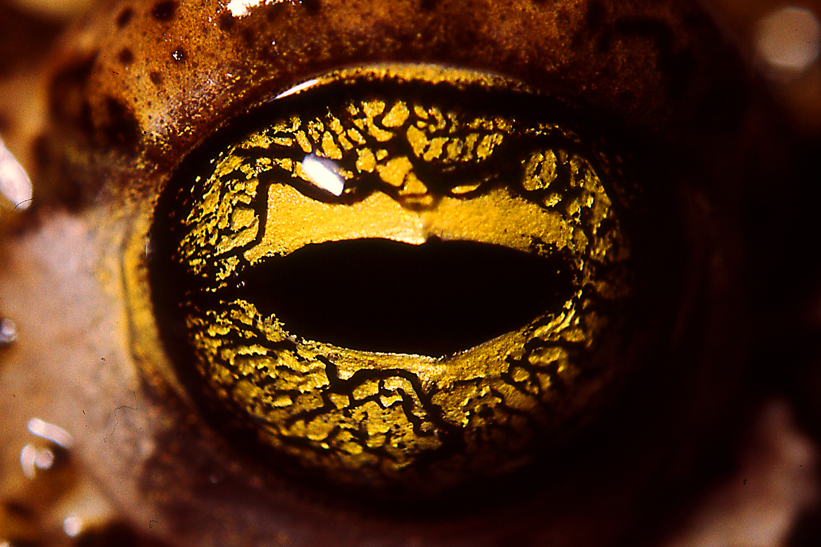 Bufo calamita, Natterjack toad's eye